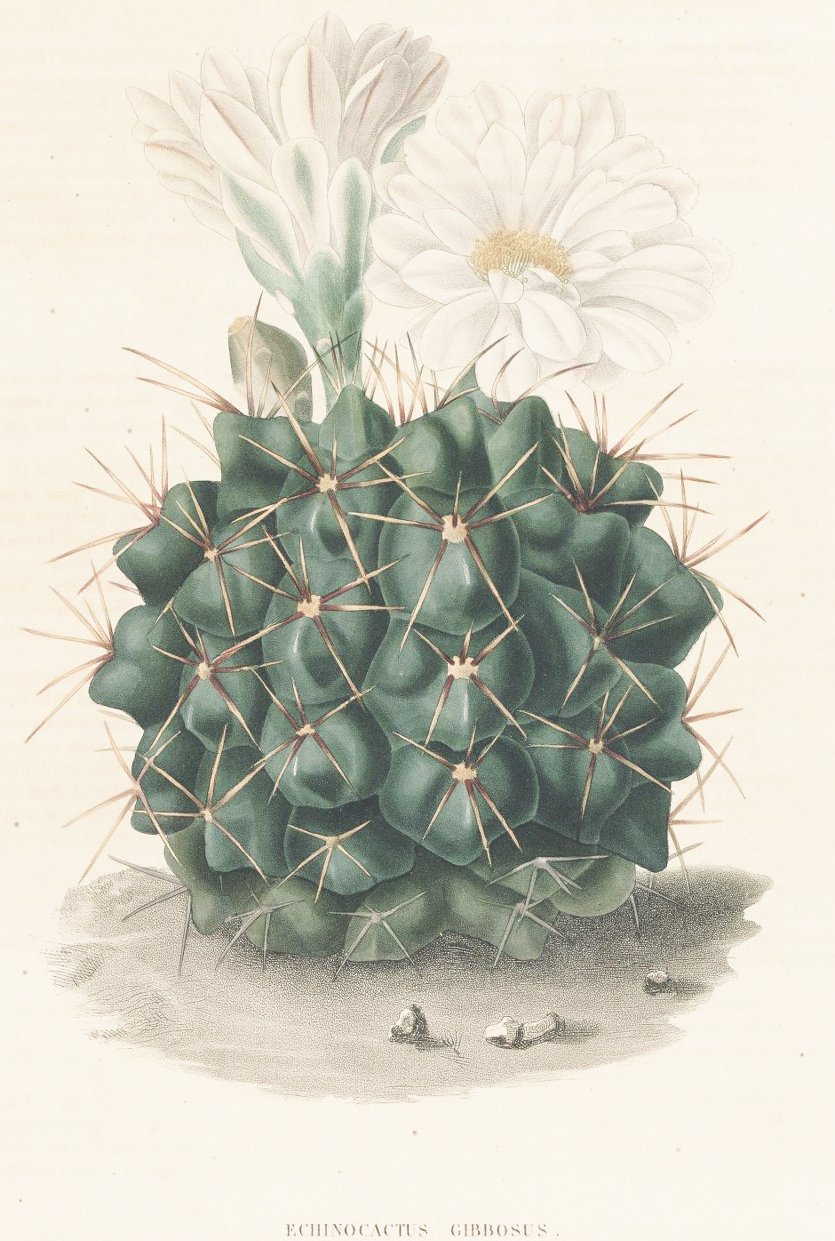 Plate from book